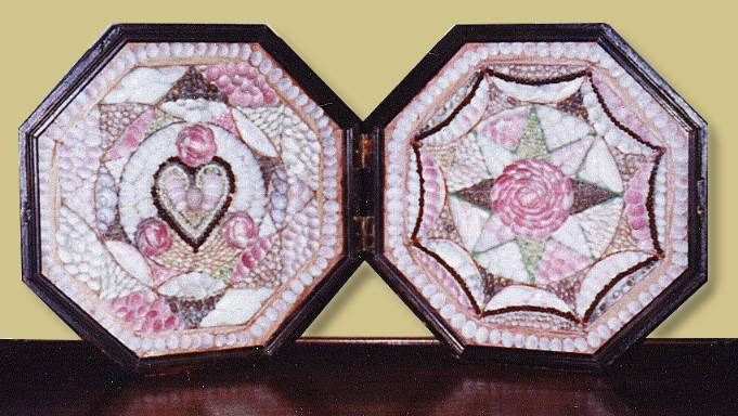 Antique sailor's valentine, ca. 1870 (approximate dimensions: 11 inches high by 22 inches wide (open))